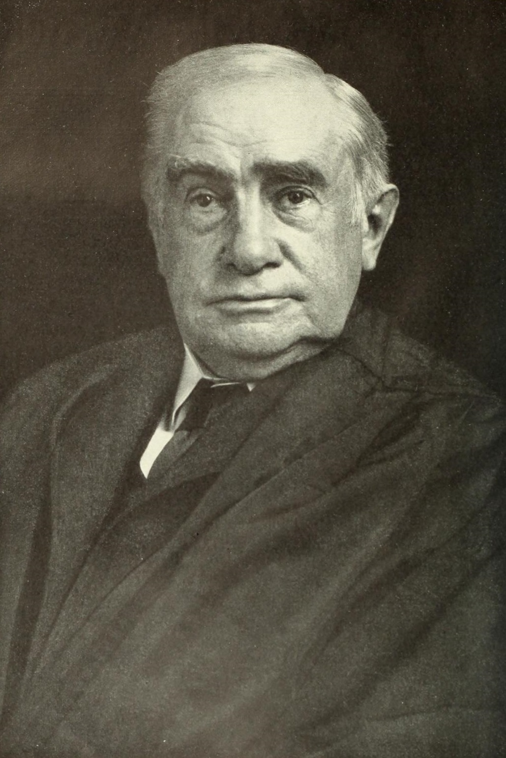 Portrait photographs Justice Henry Billings Brown of the United States